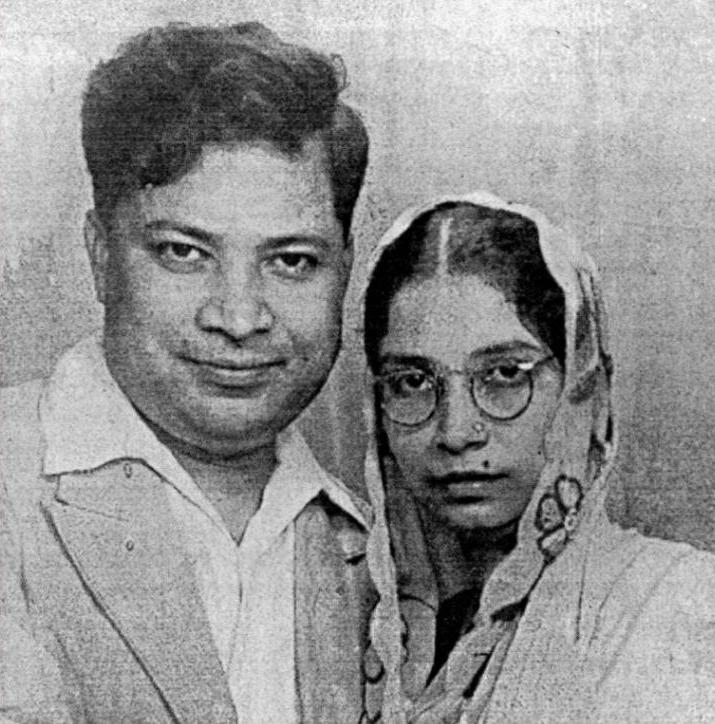 Kamaluddin Ahmed and Sufia Kamal, after they married in Kolkata, 1939